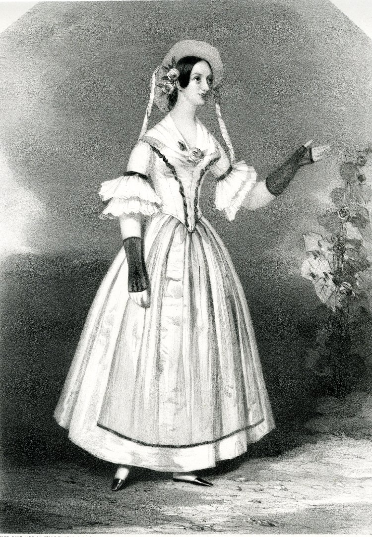 Elizabeth Rainforth in Love in a Village in 1838 by J.Graf - from British Museum - 1852,1009.726